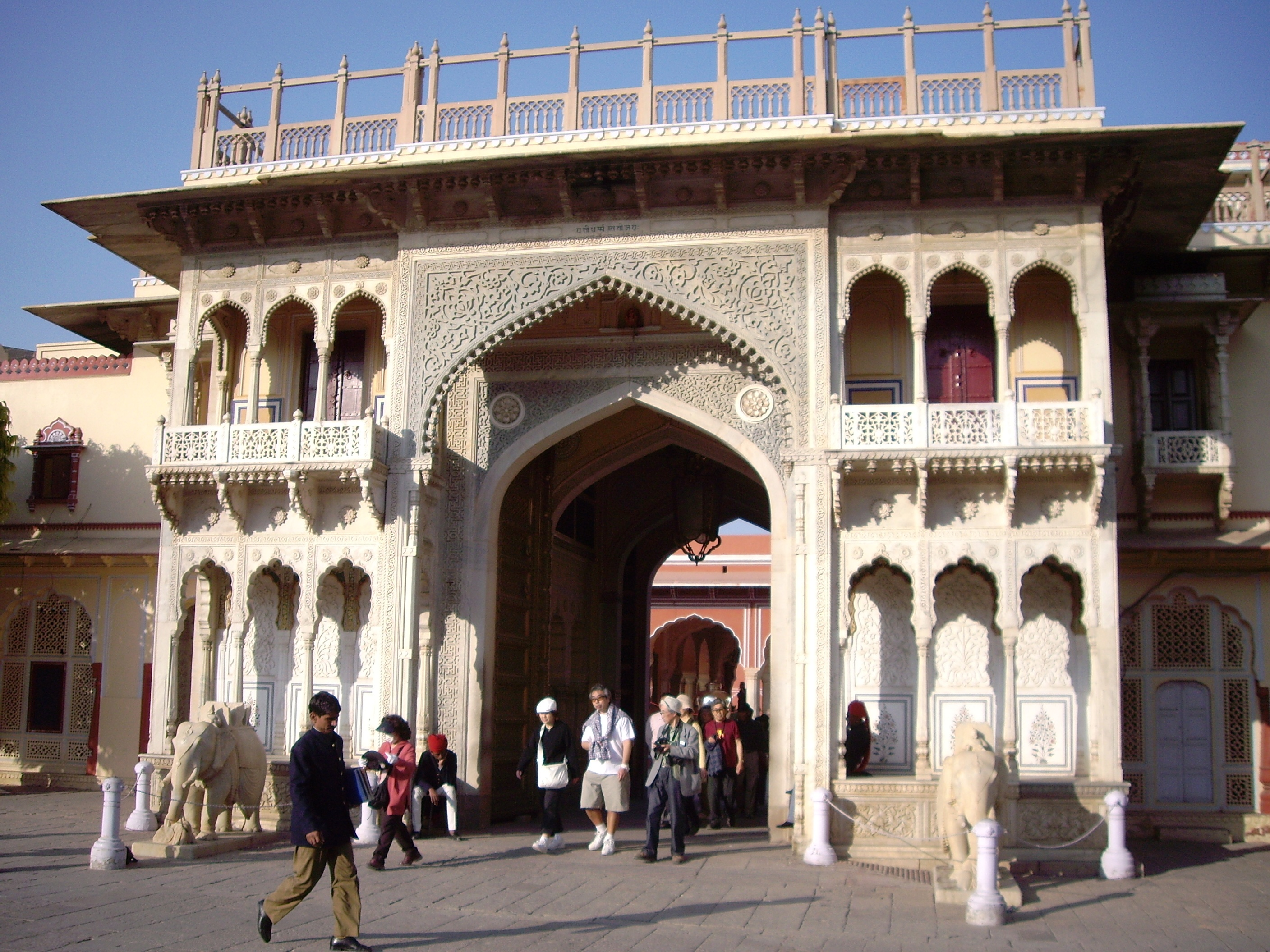 City Palace, Jaipur